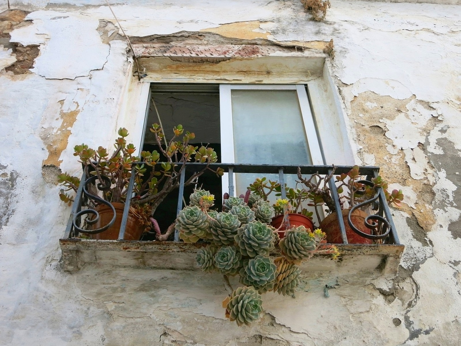 Window of flower lovers’ house in Costa del Sol (Spain)